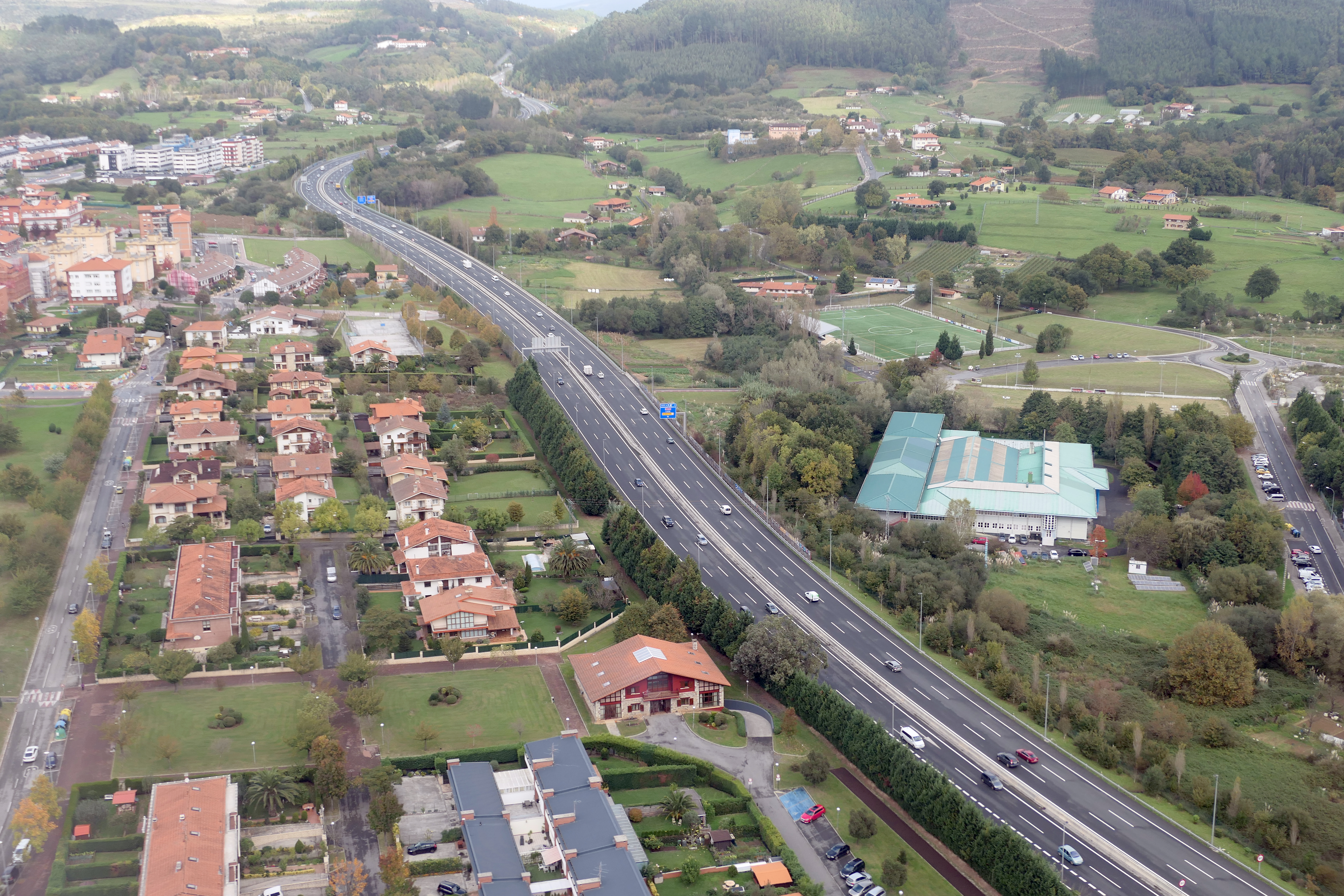 An aerial view of the BI-631 road as it passes Derio in the Basque Country.